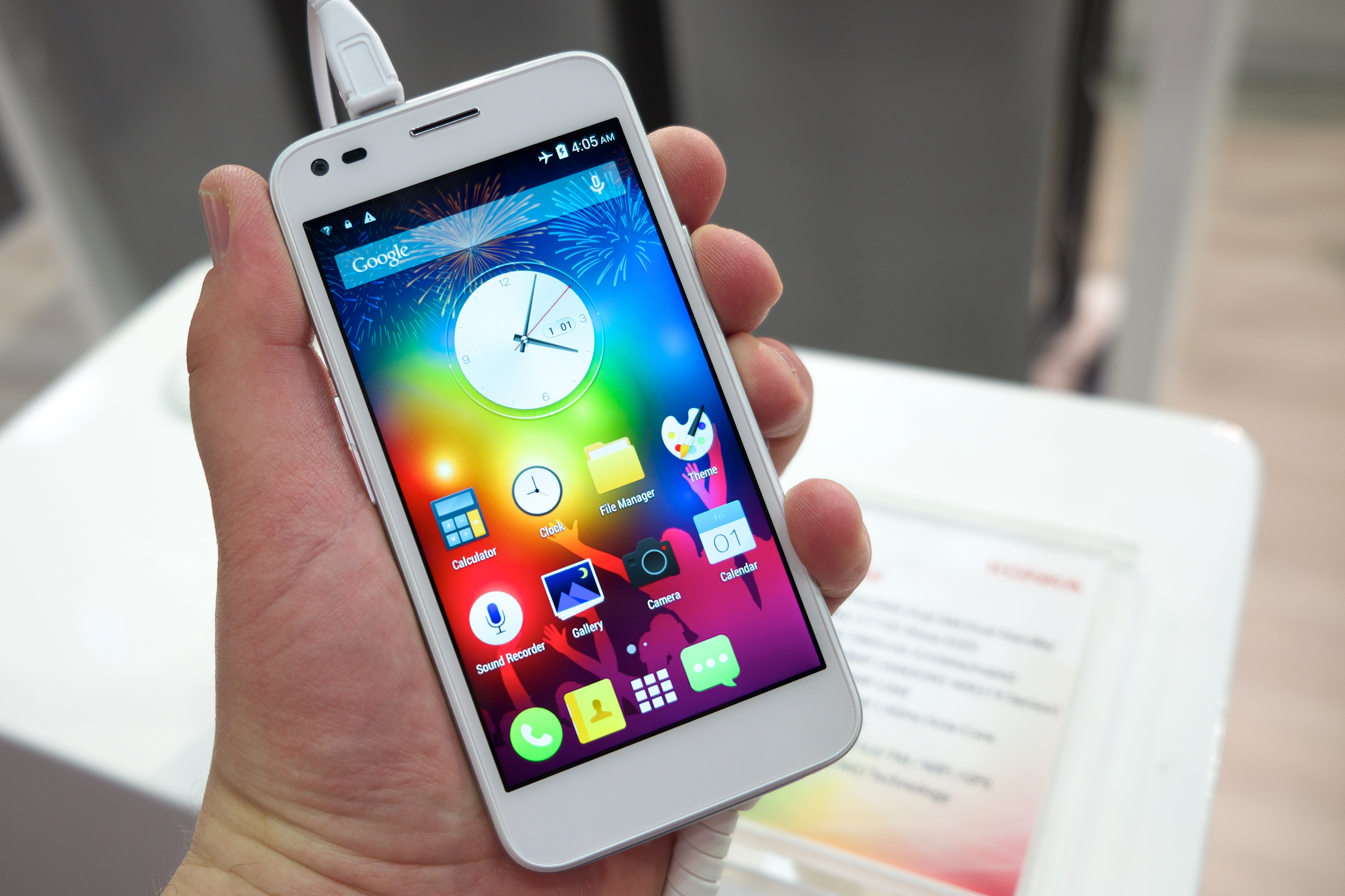 Konka 1300 at Mobile World Congress 2015 Barcelona